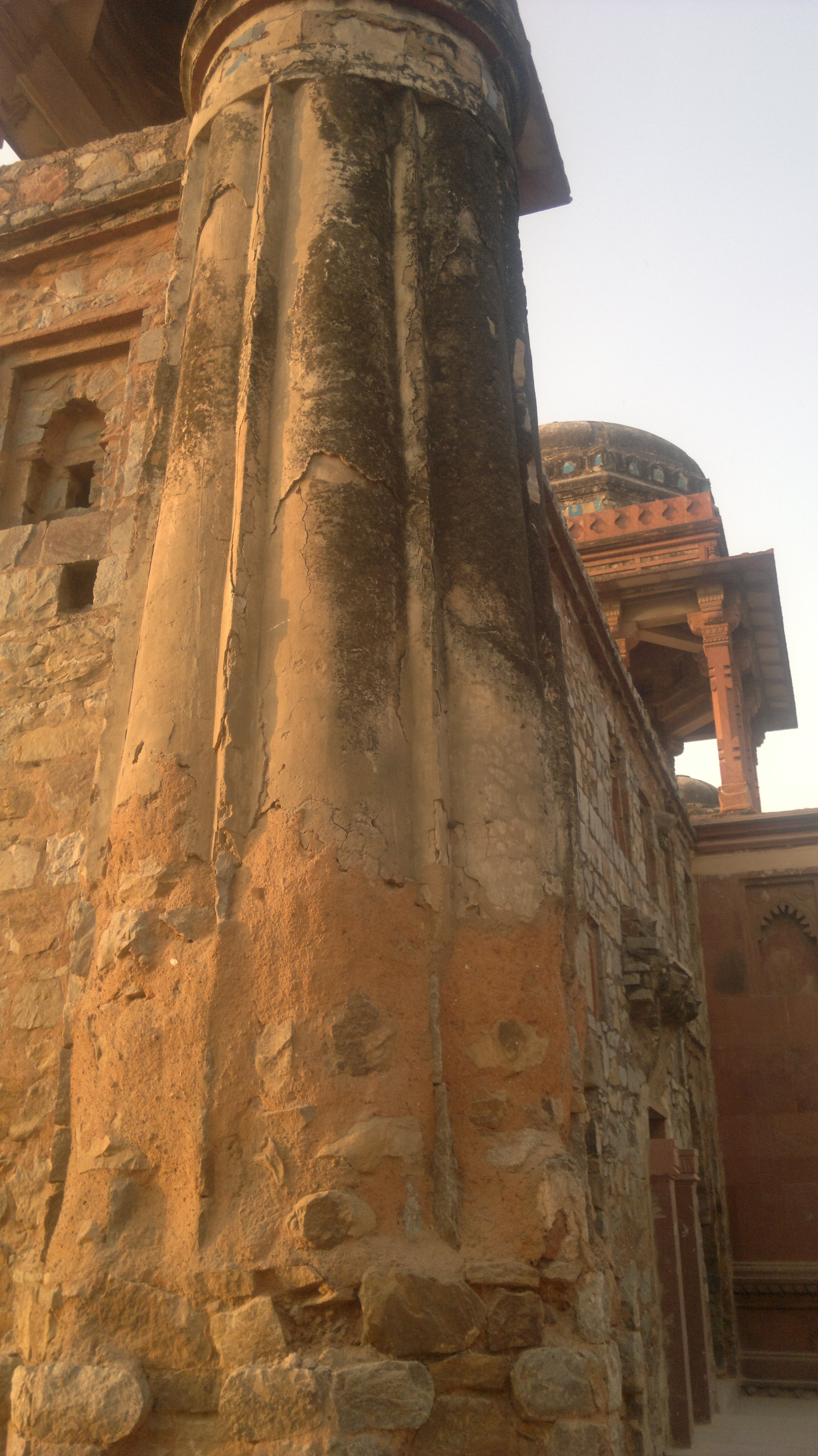 Jahaz Mahal located in Mehrauli, New Delhi,India. A water-body called 'Hauz-i-Shams' used to surround the structure once. A miserable puddle of a lake still exists at the back of this monument. The name 'Jahaz Mahal' means 'Ship Palace' in Farsi. 'Jahaz'(ship) is of course an allusion to how the structure would have looked with respect to the surrounding lake. You may notice the remnants of blue tile-work. These pieces of glazed pottery bear testament to the Indo-Persian cultural exchange that took place during medieval times. A number of monuments in Delhi have such remnants of their past glories clinging tenaciously to their present forms.